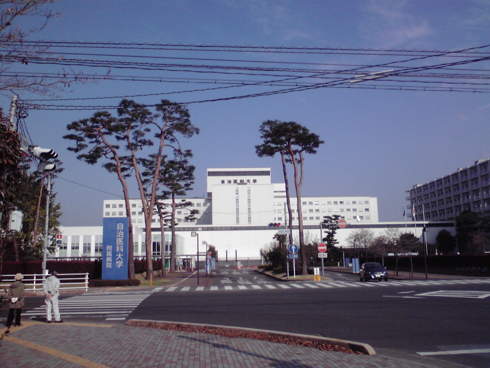 Jichi Medical University, in Shimotsuke, Tochigi, Japan.